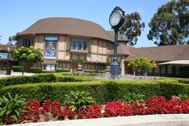 Old Globe Theater, Balboa Park San Diego